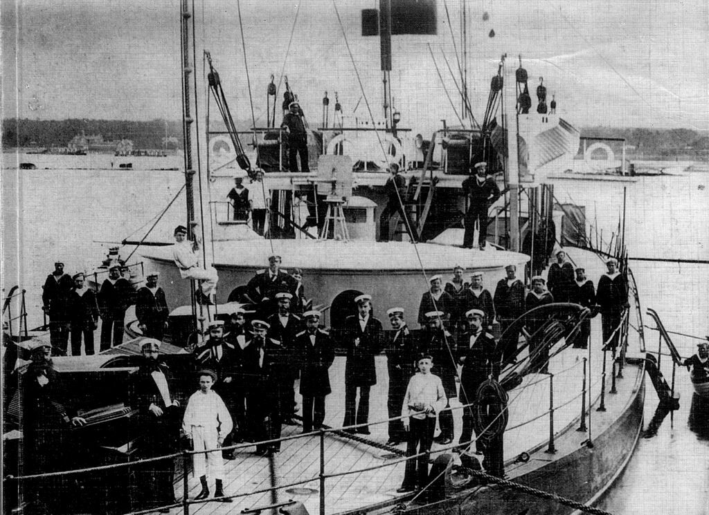 Twin turret armoured boat Rusalka.